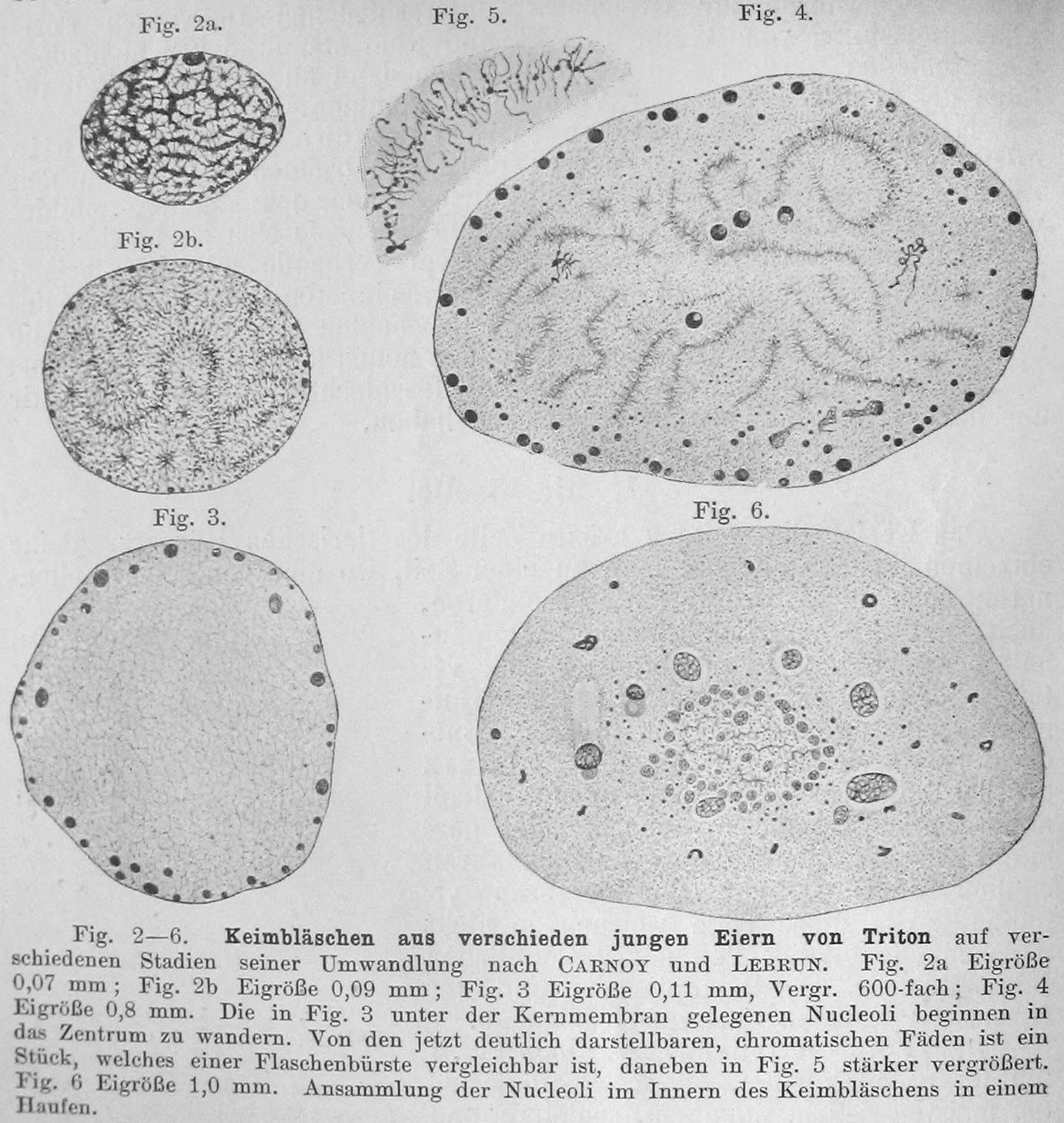 Cell nuclei from several young eggs from Triton (a Salamander species) at several stages of development. For sizes of corresponding eggs in mm see original legend at the bottom of the figure. Translation: "In Fig. 3, the nucleoli below the nuclear membrane start to wander in the center. From the now well visible chromatic fibers, a piece that resembles a bottle brush is magnified in neighboring Fig. 5. (Note: In today's terminology this is a Lampbrush chromosome.) Fig 6.: Collection of nucleoli in the center of the nucleus in a heap."